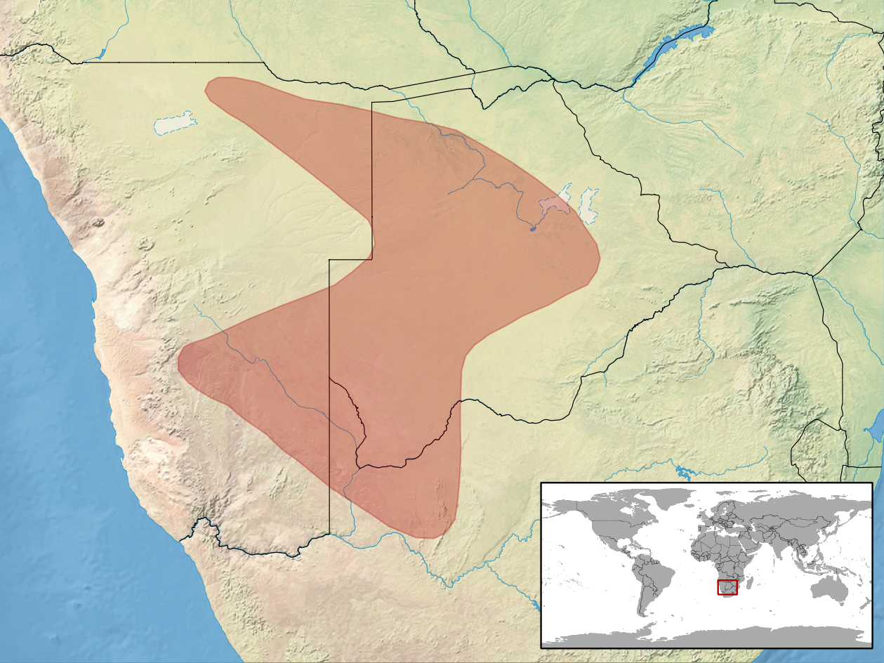 geographic distribution of Acontias kgalagadi Lamb, Biswas & Bauer, 2010 (according to RDB), new name (nomen novum) for Typhlosaurus lineatus Boulenger, 1887 (IUCN. IUCN lists T. lineatus richardi Jacobsen, 1987 as subspecies, though accepted as species (Acontias richardi (JACOBSEN, 1987)) in RDB. The range is based on IUCN's data without the distribution of A. richardi in Limpopo Province, South Africa.